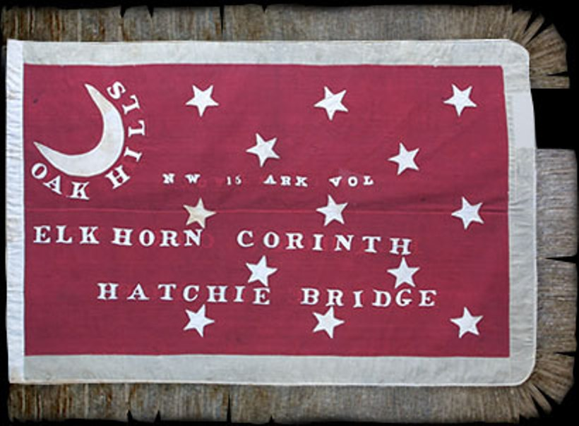 Major-General Earl Van Dorn adopted this flag design for the Army of the West in February 1862, citing confusion with the Stars and Stripes. The design bears no resemblance to Union or Confederate standards with its red field, stars to represent the thirteen states, and the yellow crescent to represent Missouri. Probably presented after Hatchie Bridge, Tennessee, on 5 October 1862, the flag and its bearer were captured near Port Gibson, Mississippi, 1 May 1863. It is the only known Van Dorn flag to carry battle honors and unit designation. Physical Description: Van Dorn's Battle Flag pattern, Army of the West Wool, cotton stars, silk border, crescent and fringe, 45 1/2" x 68 3/4" Returned to Arkansas by the State of Indiana Old State House Museum Collection Number 1962.01.1